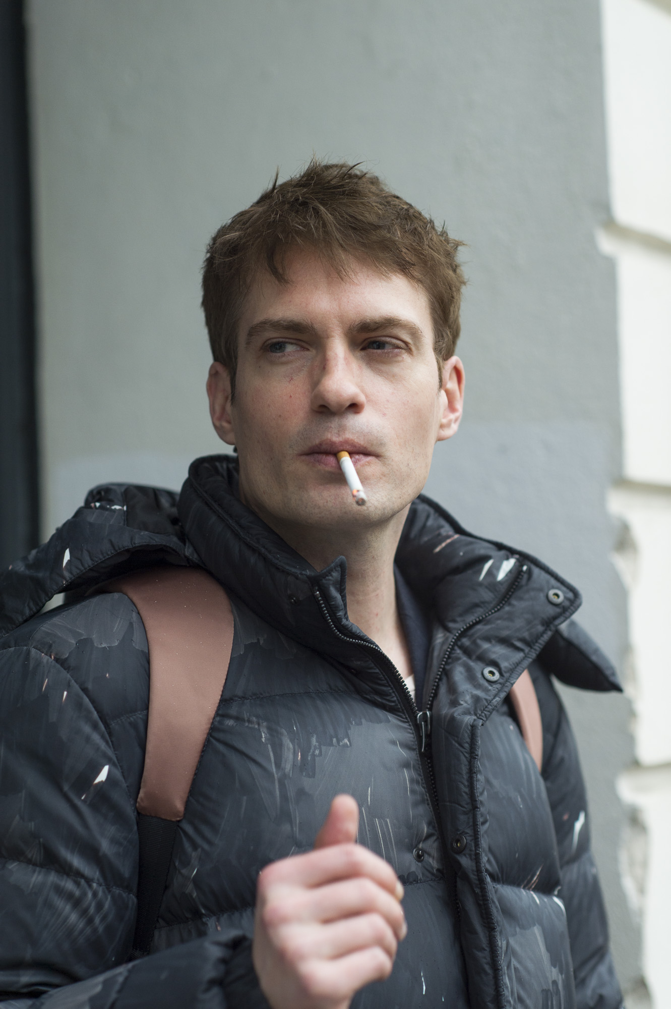 Florian Burkhardt by Laurent Burst 2015 in Berlin